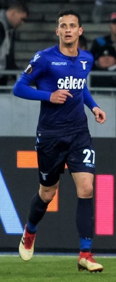 Luiz Felipe Ramos Marchi